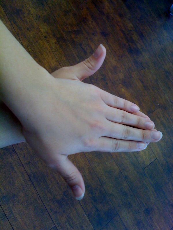 The awkward turtle is cultural phenomenon and internet meme, including a hand gesture and a phrase which are popularly used to defuse awkward social situations.